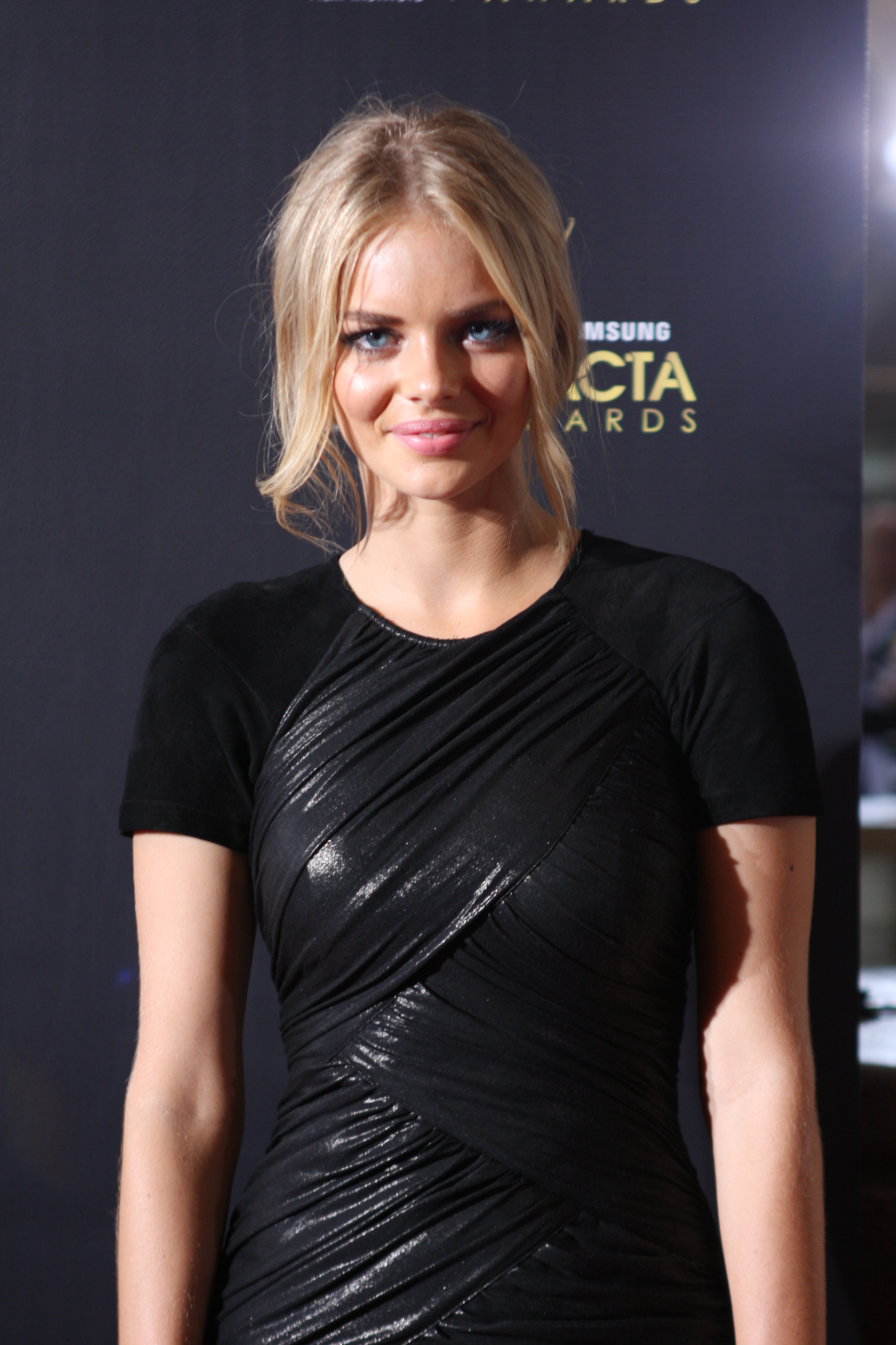 Australian actress Samara Weaving at the AACTA award 2012, Sydney, Australia